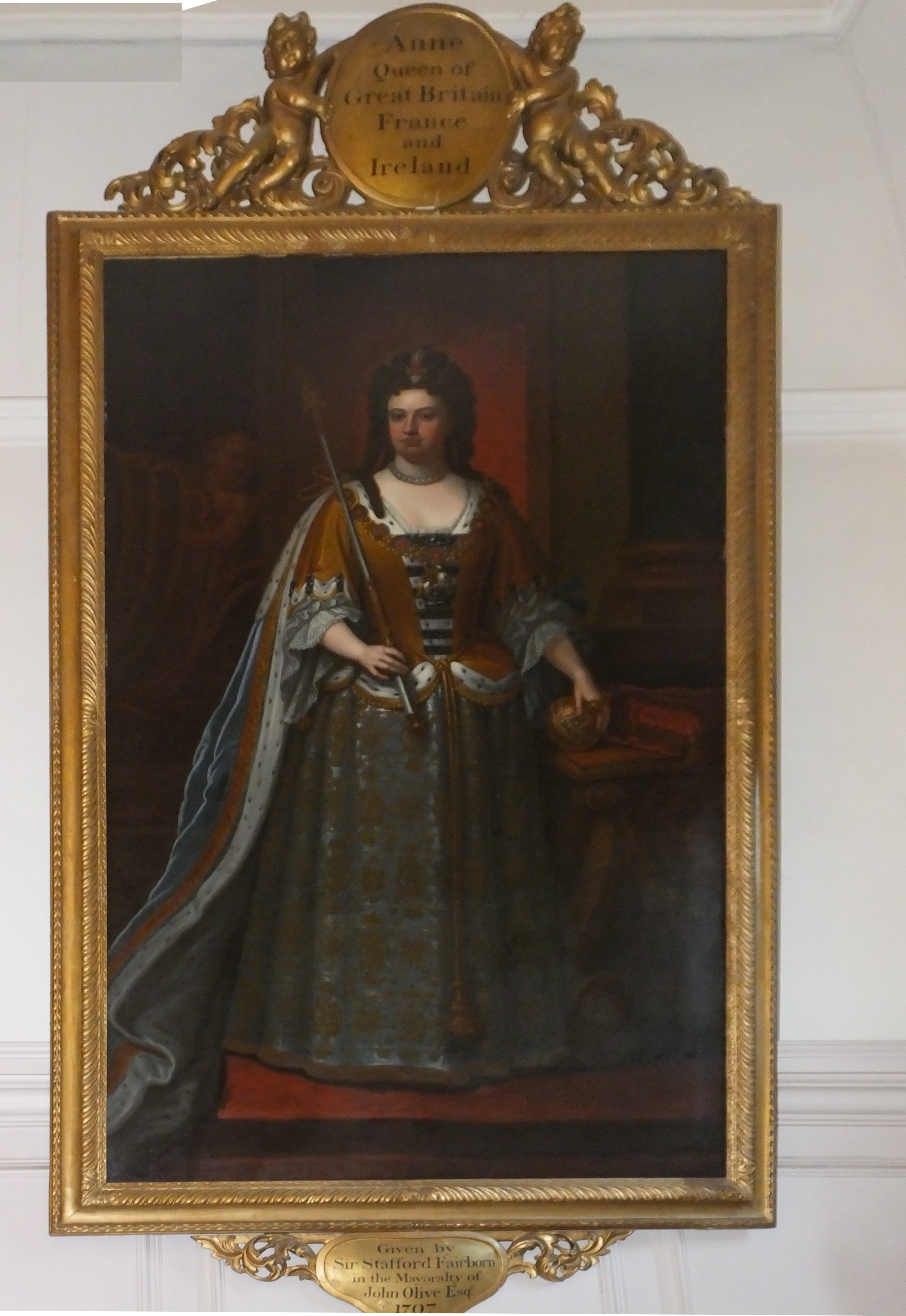 Queen Anne (1665-1714). Portraits from the collection of the Guildhall Museum in Rochester, Kent.